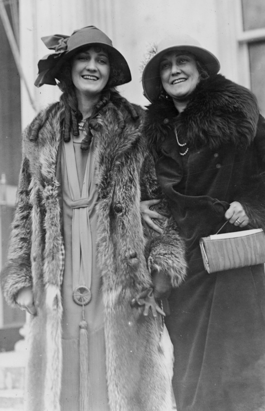 Miss Ruth Malcomson of Philadelphia, Miss America 1924, and her mother, Mrs. Augusta Malcomson, at the White House visiting President Coolidge